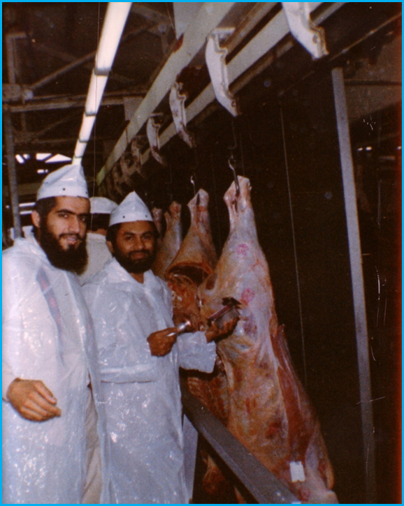 Dr Hani Mazeedi kuweiti scientist